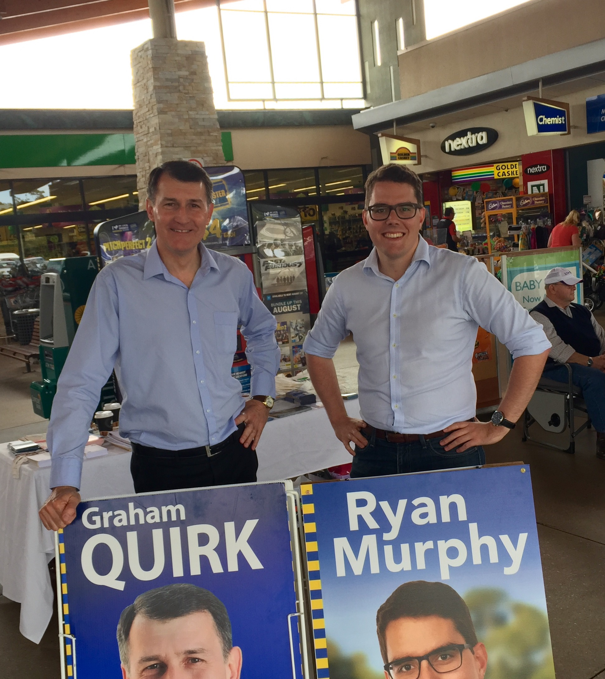 Lord Mayor Graham Quirk (left) and Cr Ryan Murphy (right) hold a mobile office at Mayfair on Manly Shopping Centre, Manly West, Queensland, Australia.